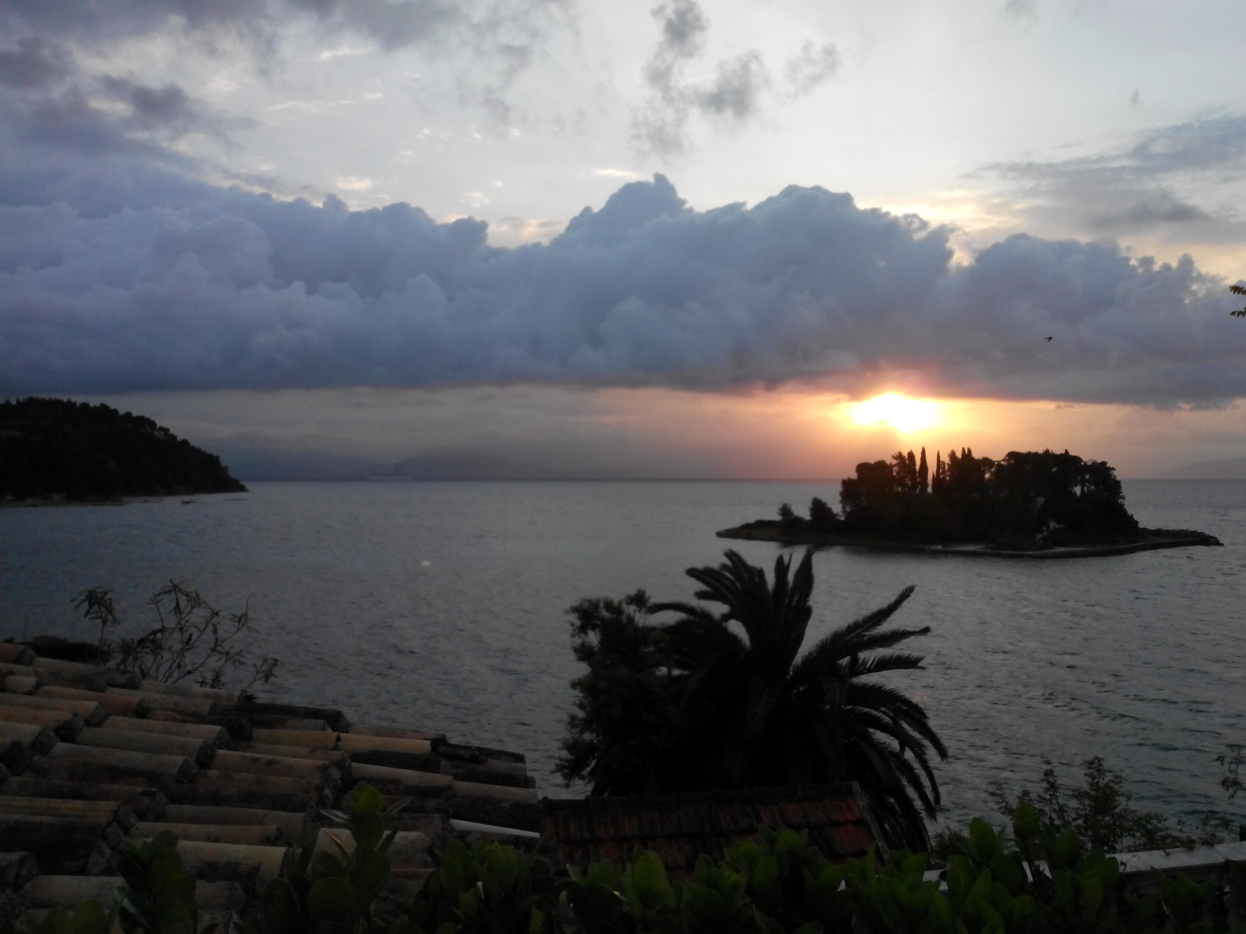 Mouse Island, Greece